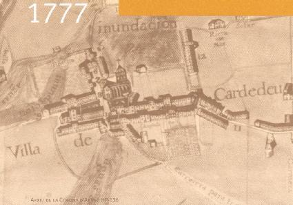 Cardedeu in 1777.